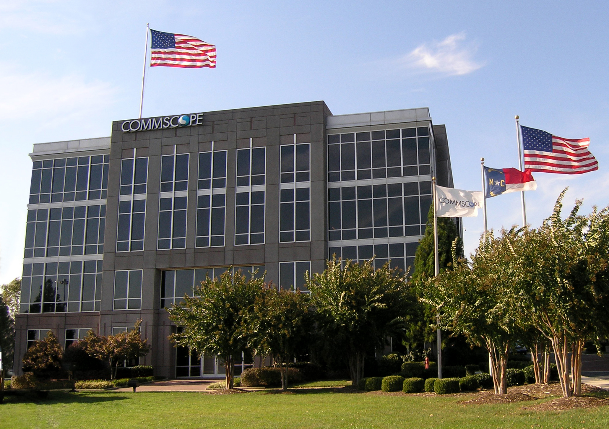 CommScope Corporate Headquarters in Hickory, North Carolina